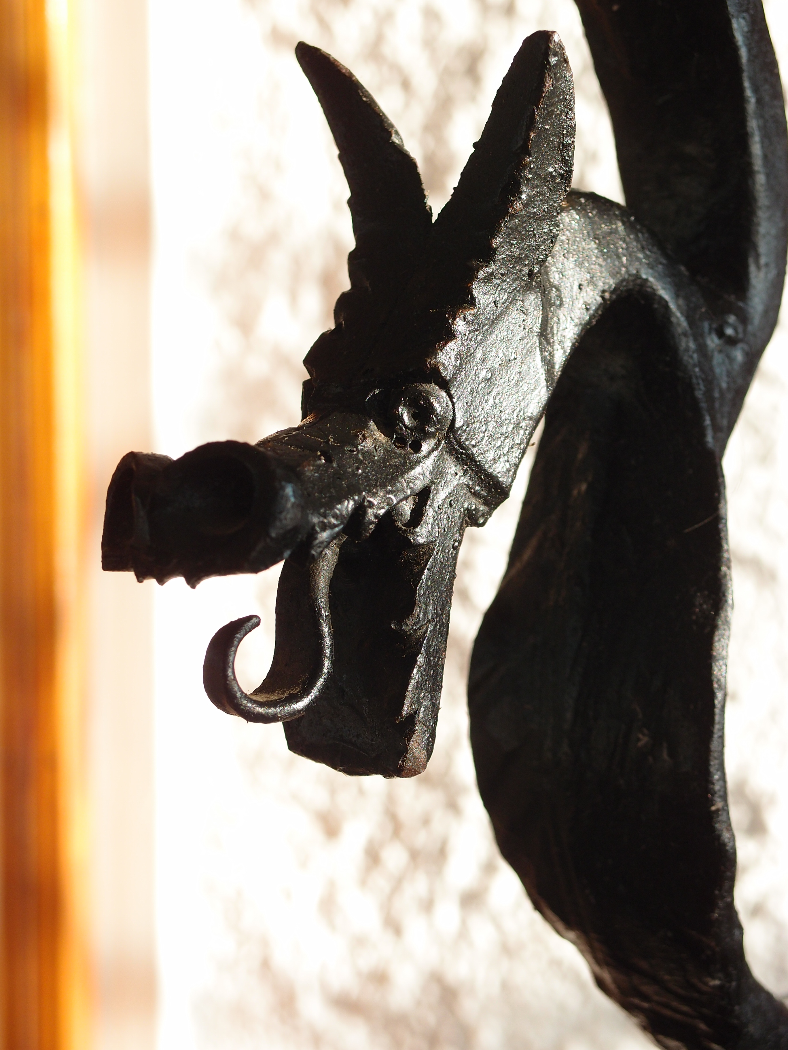 Drache einer geschmiedeten span. Lampe (im pers. Eigentum des Urhebers) Datum: 26.09.2011 Urheber: M. Pfeiffer alias Gordito1869 Quelle: Privates Fotoarchiv des Urhebers